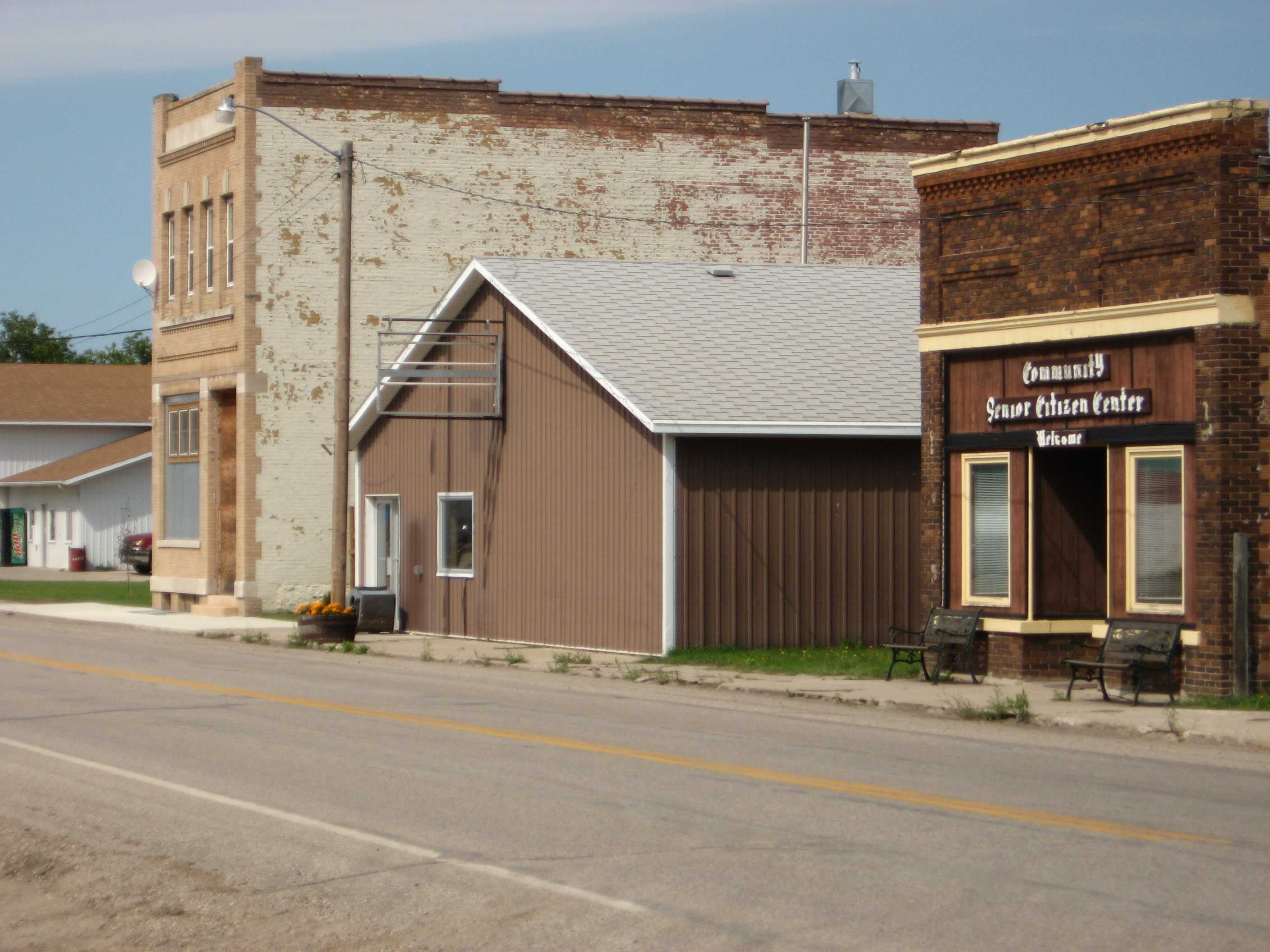 Looking At the Senior Citizen's Center and the Taxidermy Shop.